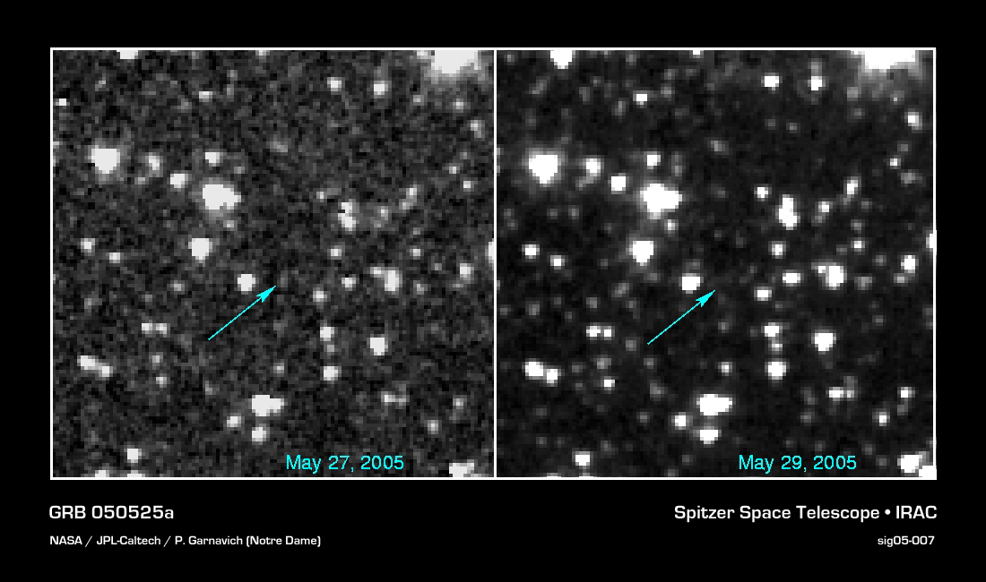 Gamma-Ray Burst 050525a